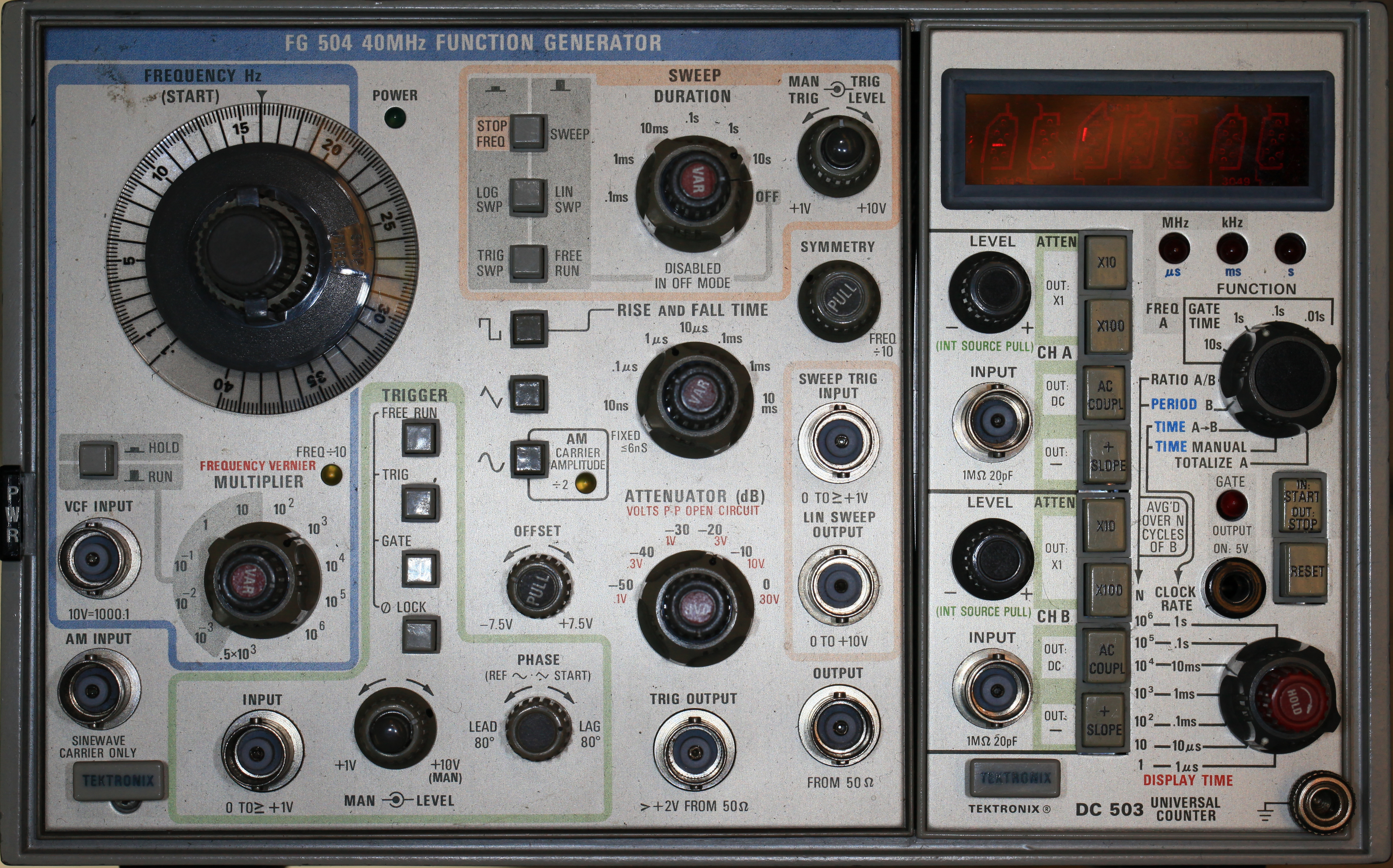 Tektronix FG 504 Function generator with DC 503 Universal Counter